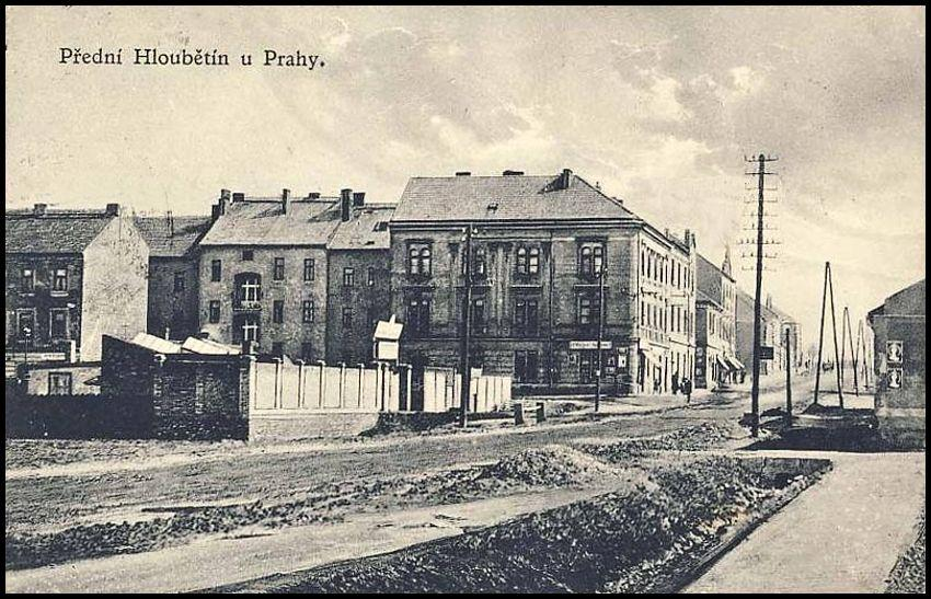 Přední Hloubětín (probably in 1934), since 1946 a part of Prague-Vysočany.